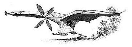 Clément Ader's Ader Éole in flight in a drawing published on French magazine L'Illustration in 1891.